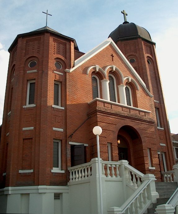 Sacred Heart Cathedral in Kamloops. Photo By DrHaggis